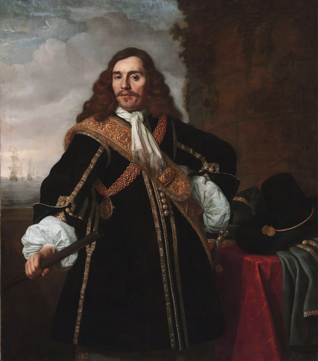 Captain Gideon de Wildt oil on canvas 135.8 x 119 cm 1657